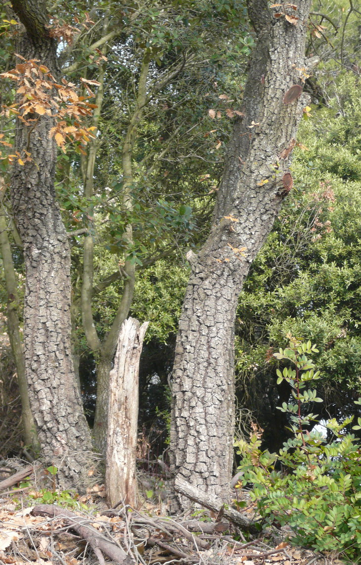 Quercus cerrioides. Collserola, Catalonia.